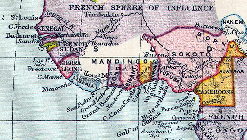 West Africa in 1897 extracted from Gardiner's School Atlas of English History